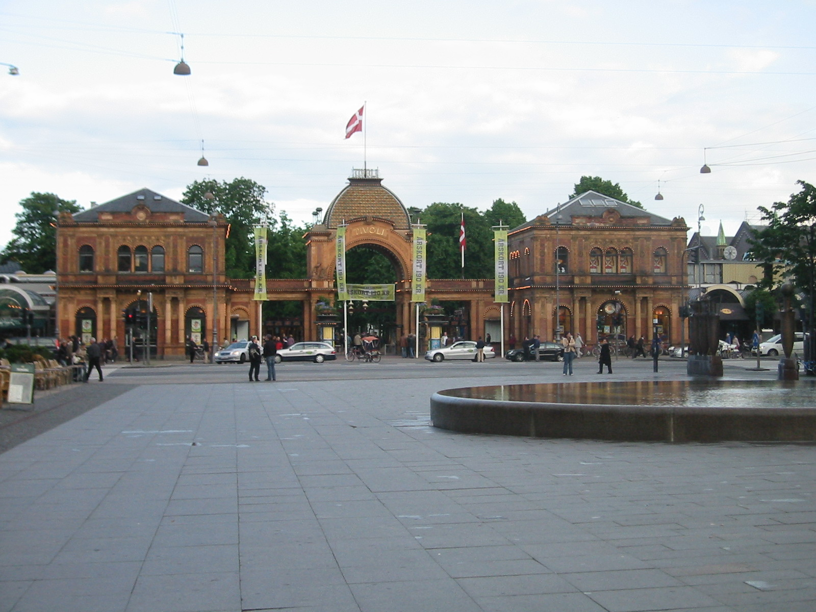 The main entrance to the amusement park Tivoli seen from Axeltorv in Copenhagen.